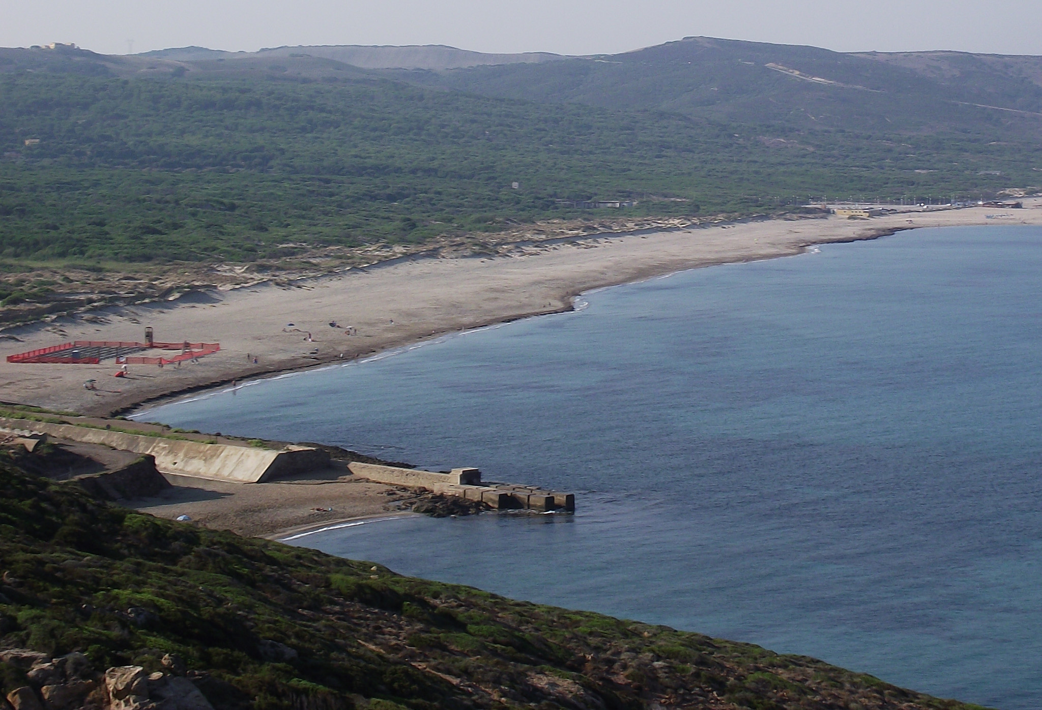 Funtanamare beach in Gonnesa, Sardinia, Italy